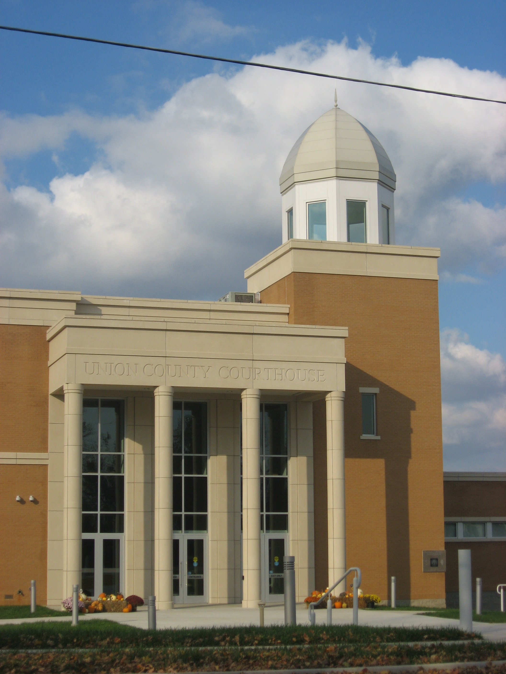 Front of the Union County Courthouse, located at 309 W. Market Street in Jonesboro, Illinois, United States.